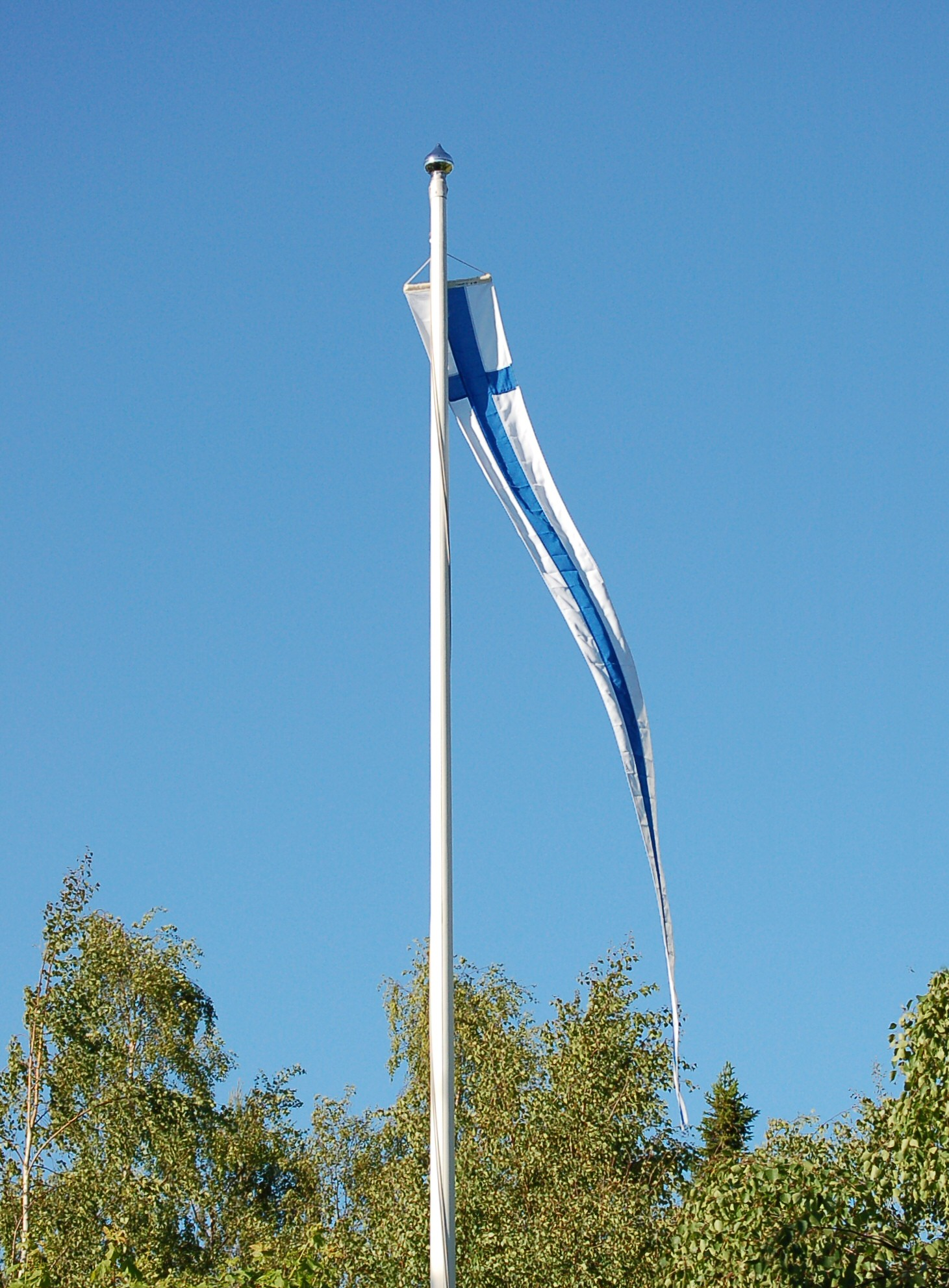 A traditional Finnish blue-crossed pennant. When flown it indicates the presence of the house's owner